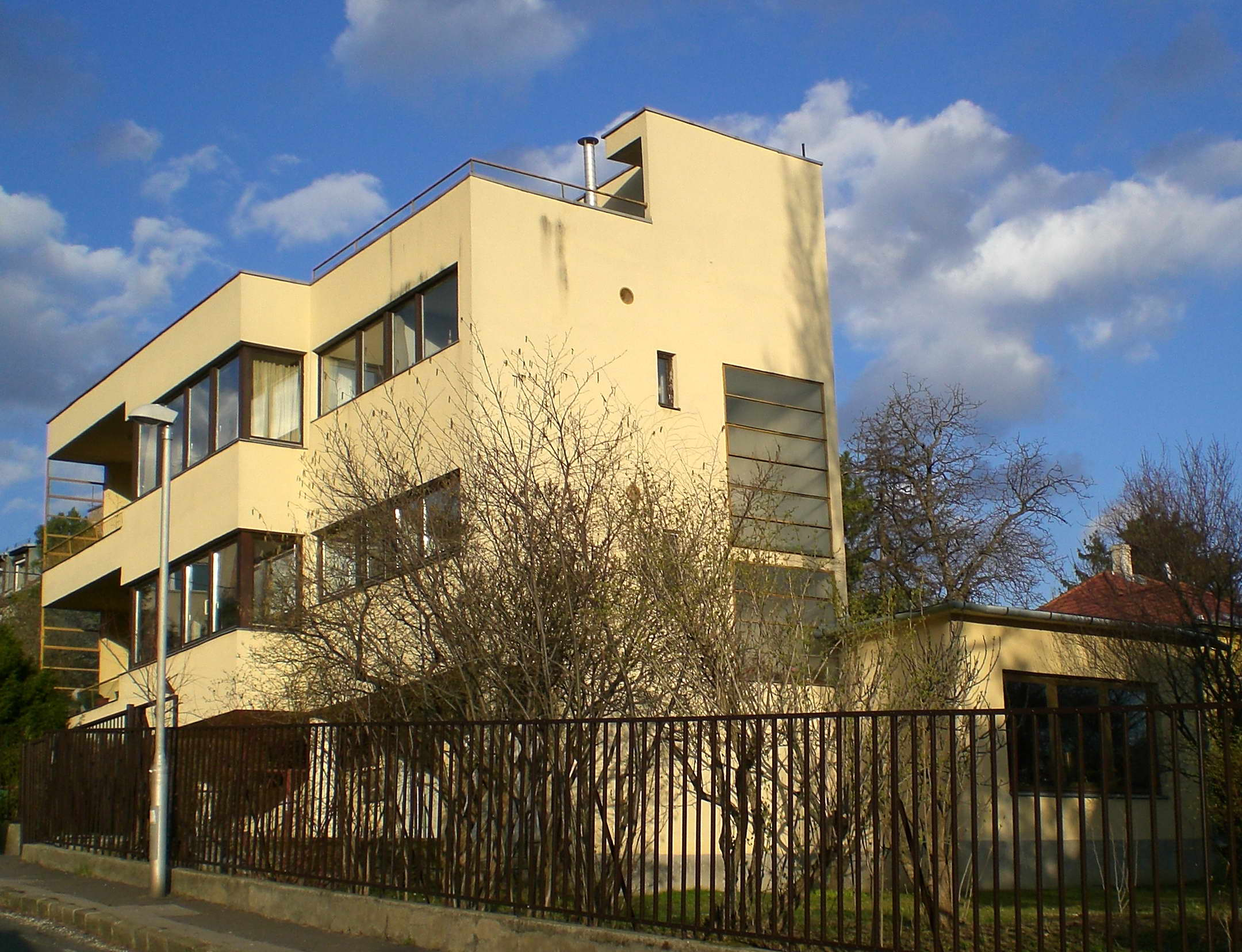 Bauhaus in Budapest — about 1930. Monument ID 7814 Designed by Farkas Molnár.